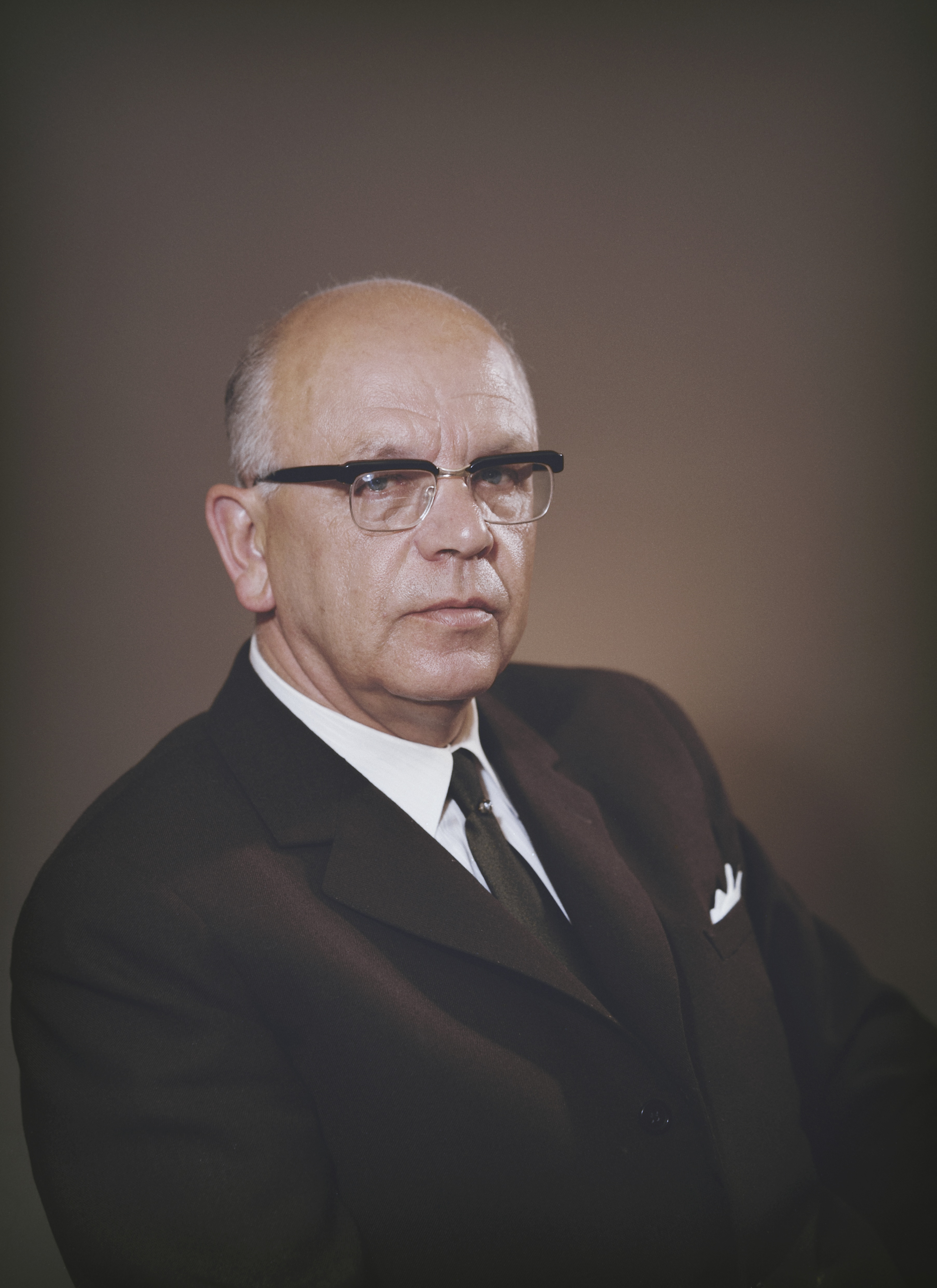 Photograph of the Finnish politician Reino Oittinen (1912–1978).